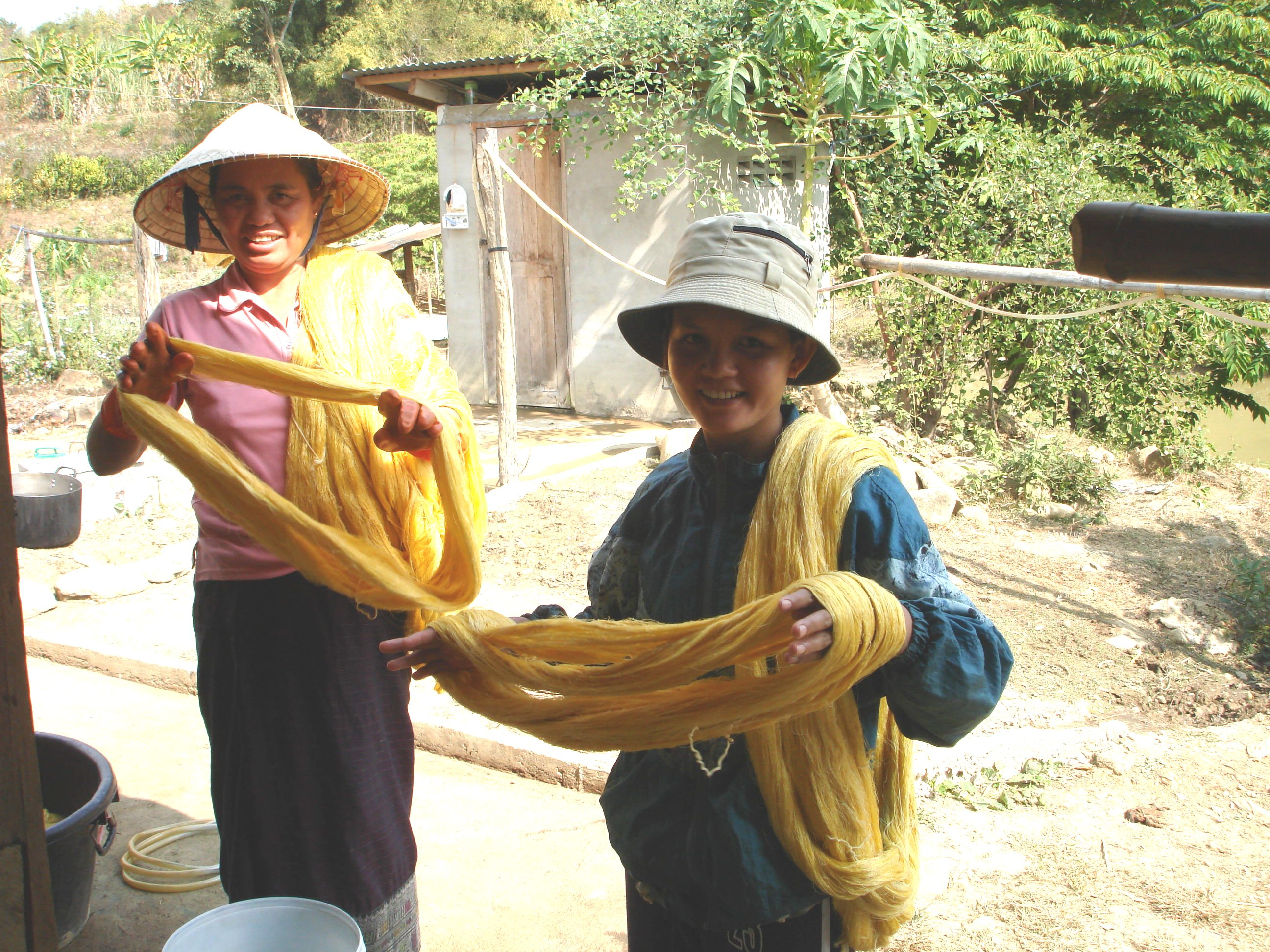 Process of natural silk dying in Xieng Khouang Province, Laos